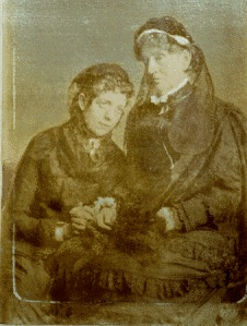 Sarah Polk with her niece, Sallie Polk Jetton Fall.